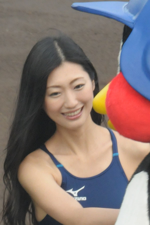 Japanese actress Mitsu Dan at Akita Komachi Baseball Stadium